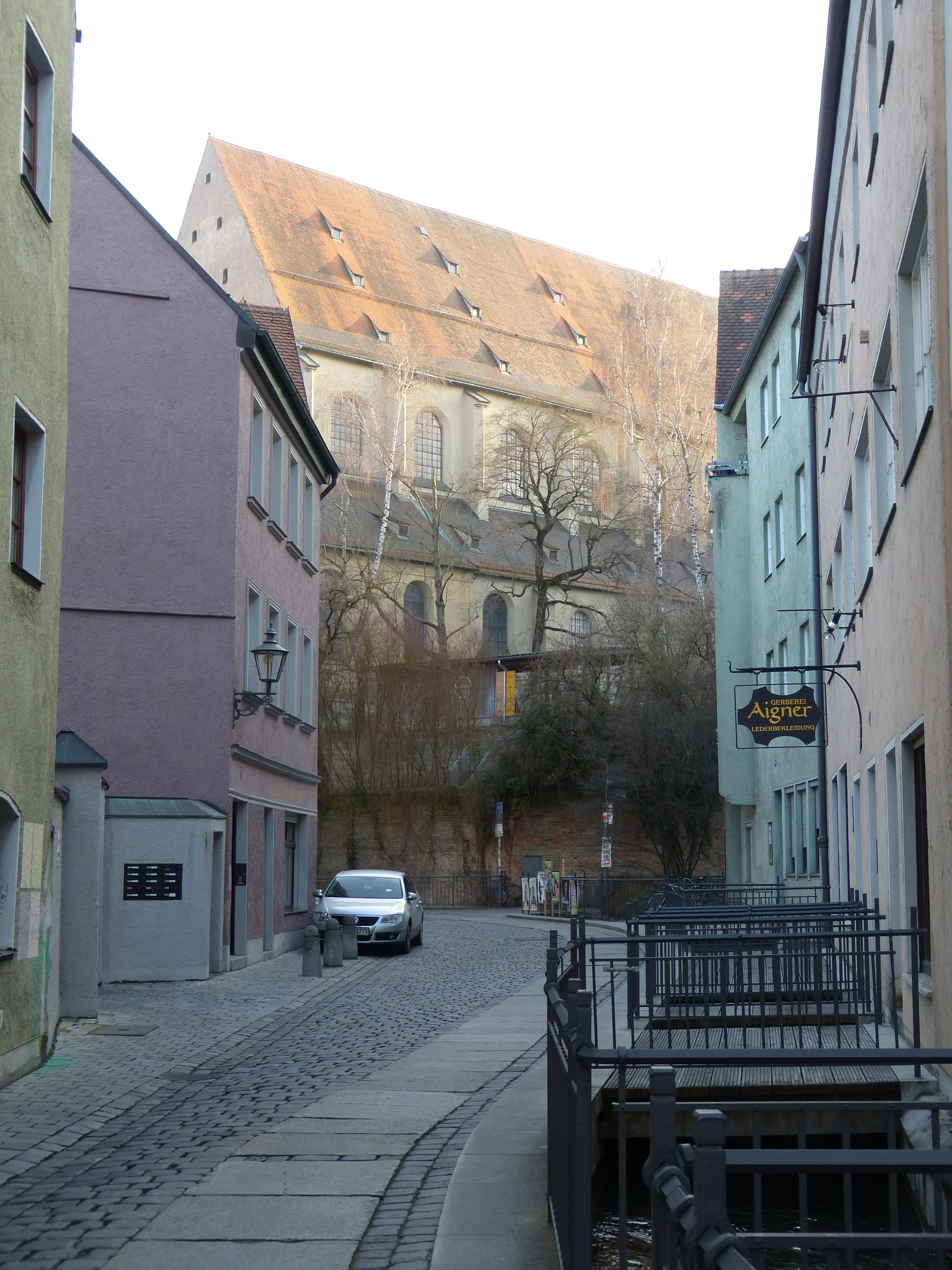 Augsburg, Vorderer Lech, Blick auf ehemalige Dominikanerkirche. This is a photograph of an architectural monument.